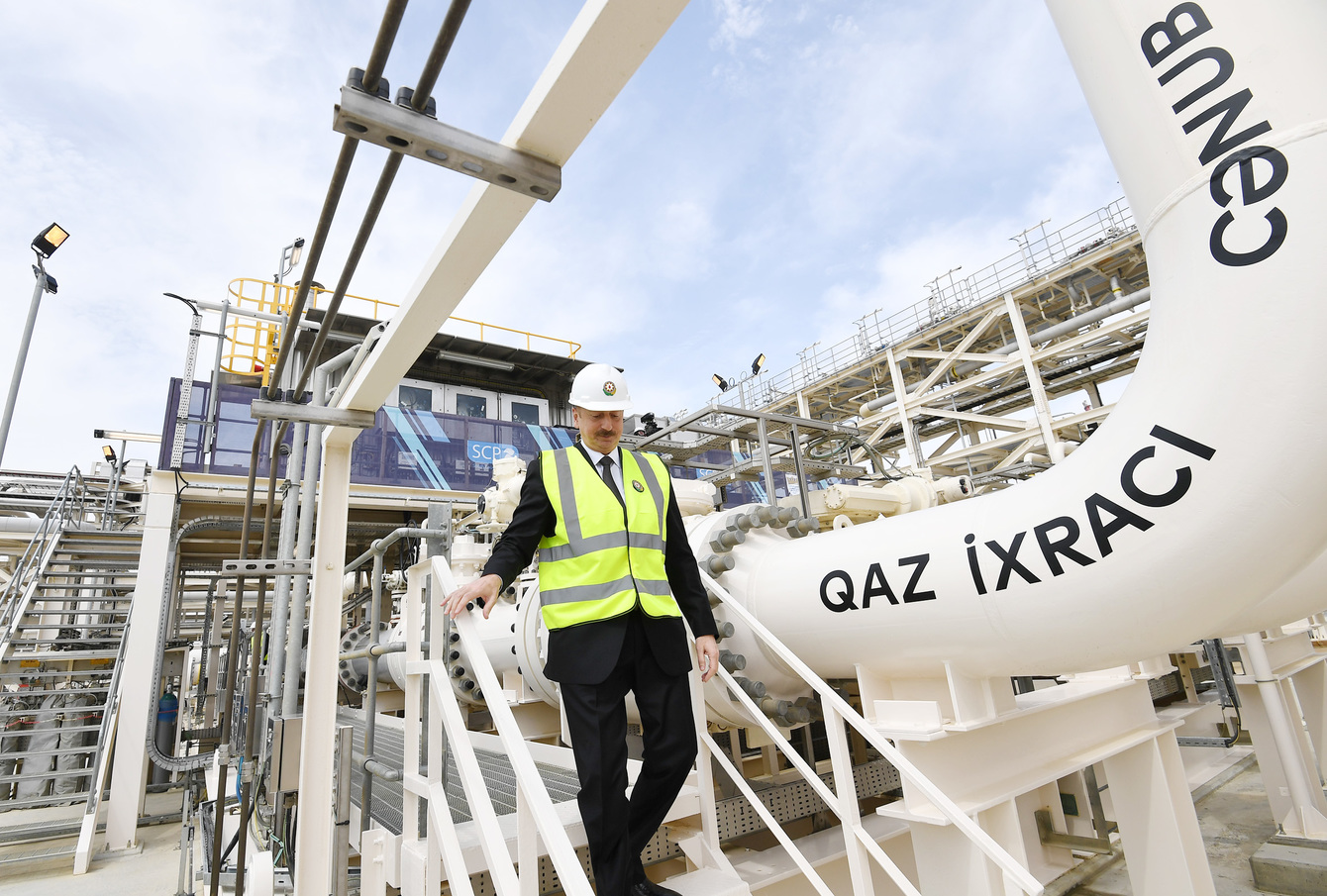 Ilham Aliyev attended official opening ceremony of Southern Gas Corridor. Sangachal Terminal